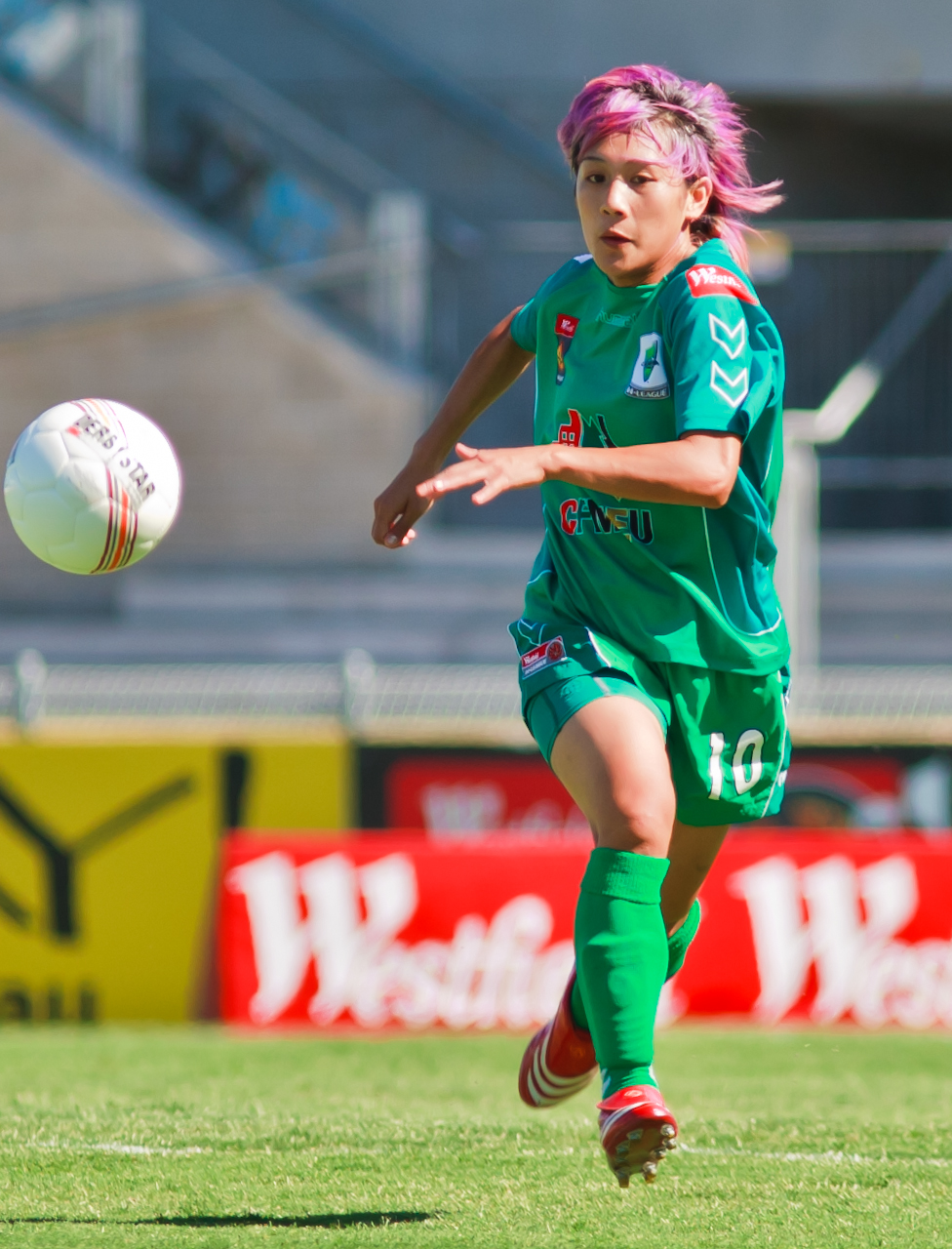 Tseng Shu-o playing for Canberra United in the 2009 Australian W-League.